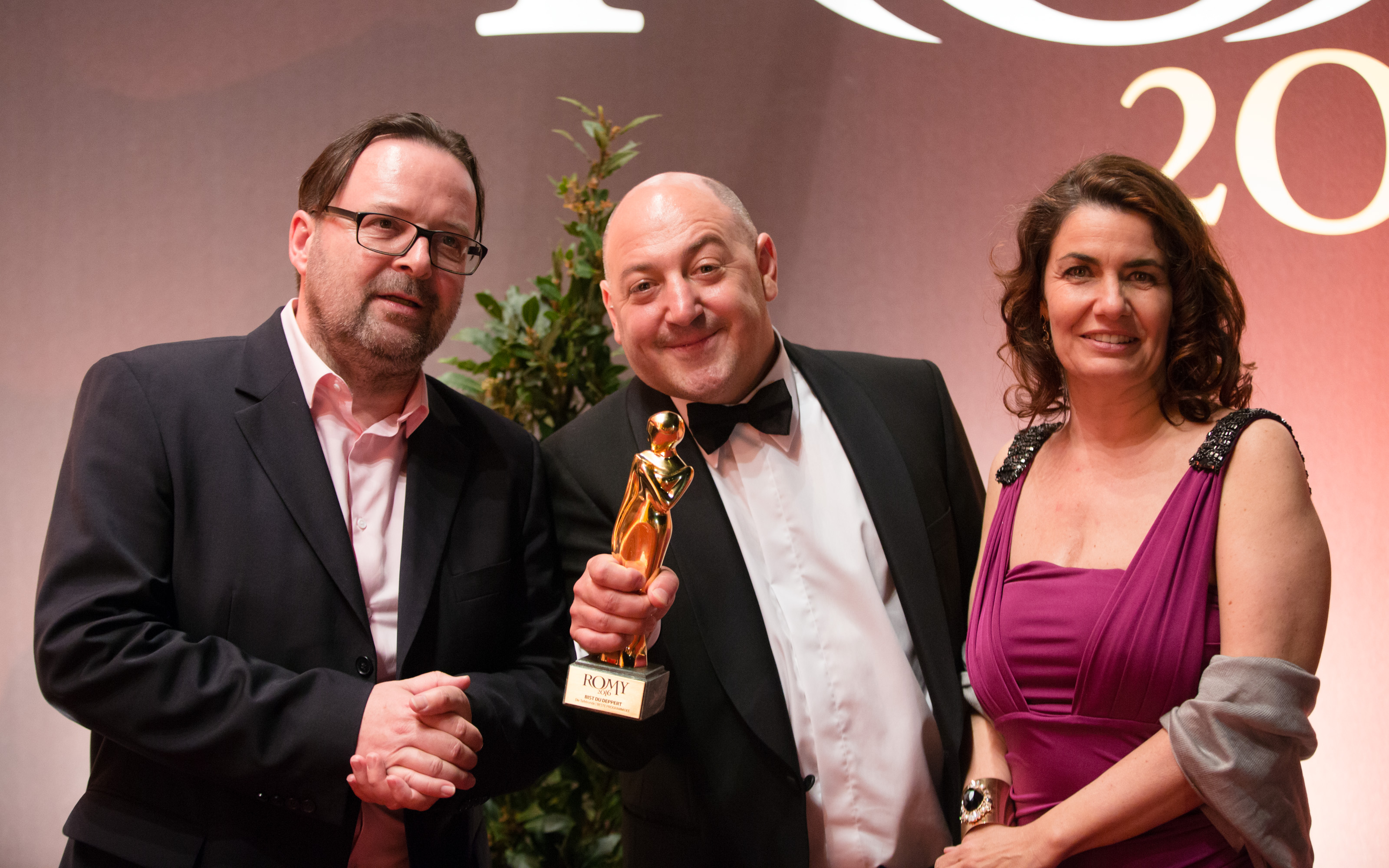 Mike Bernard (l.), Rudi Roubinek and Sandra Klingohr on the red carpet of the Romy TV awards 2016 at Hofburg Palace in Vienna, Austria.